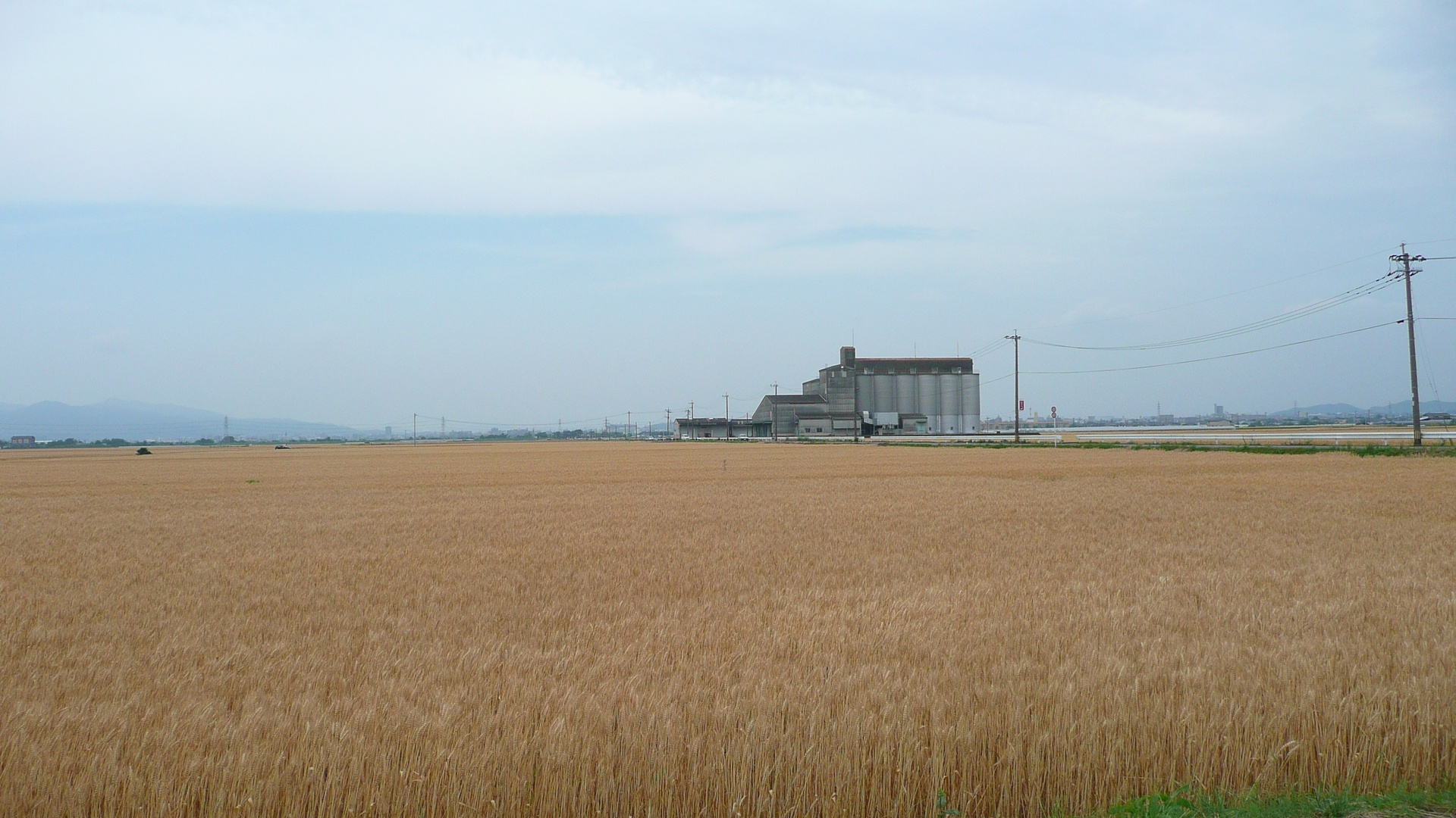 Wheat Field (Kashima Town, Kumamoto, Japan